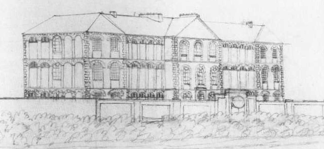 Drawing of the Lunatic Asylum, Bedford, England